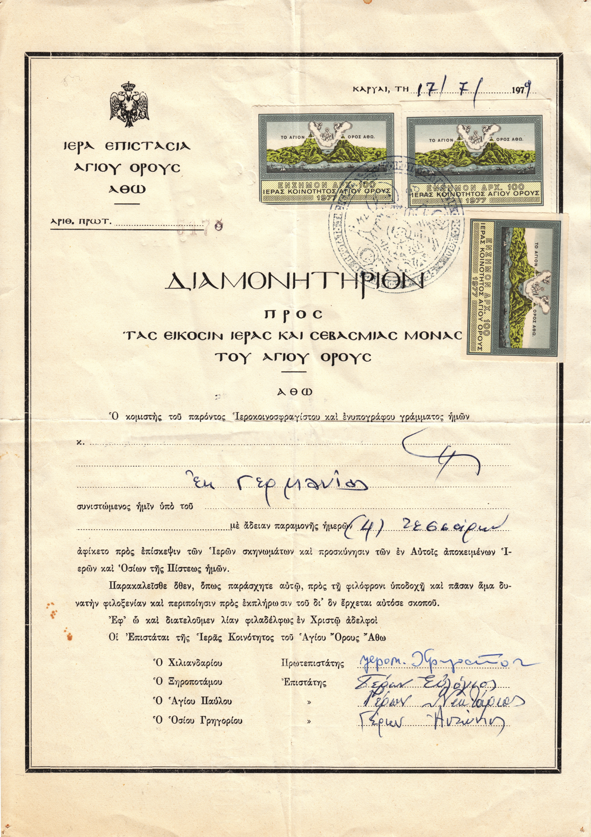 Diamonētērion 1979